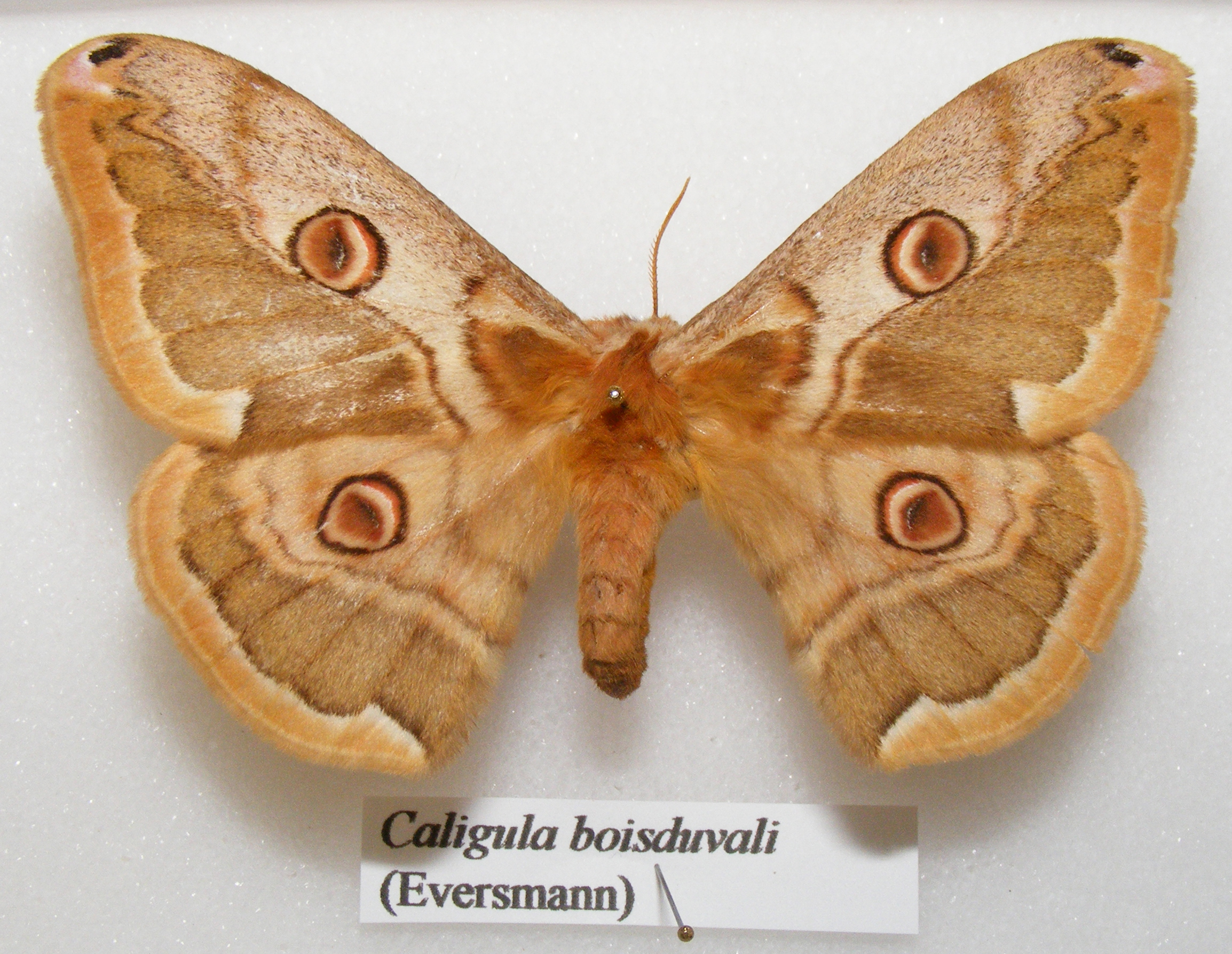 Caligula boisduvali adult female from the Texas A&M University Insect Collection